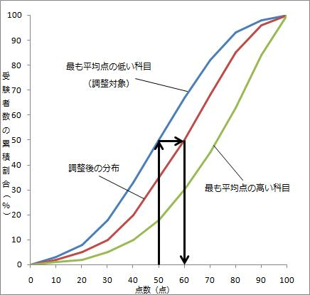 The graph of mark adjustment (National Center Test for University Admissions)